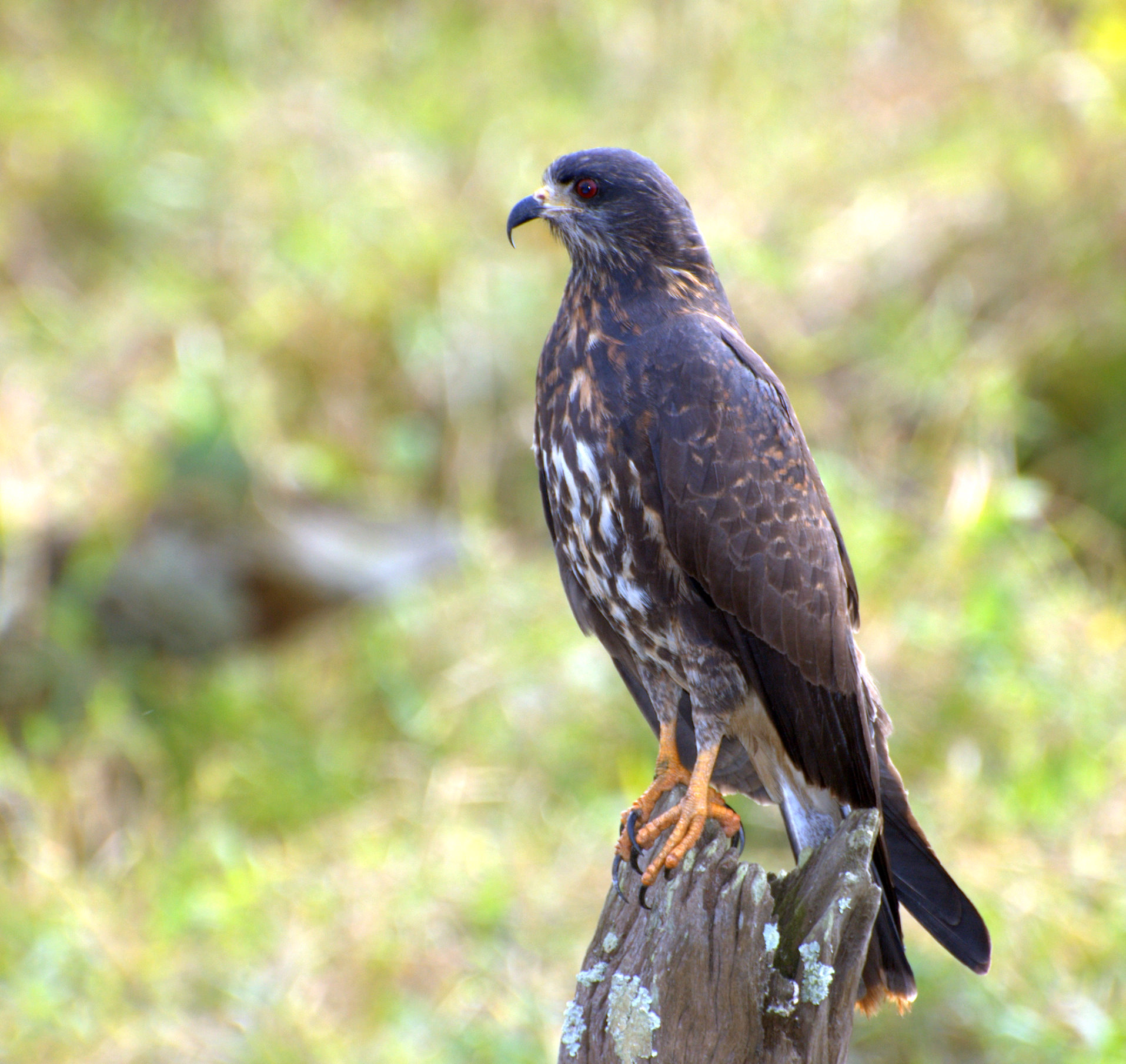 A Snail Kite (Rostrhamus sociabilis)